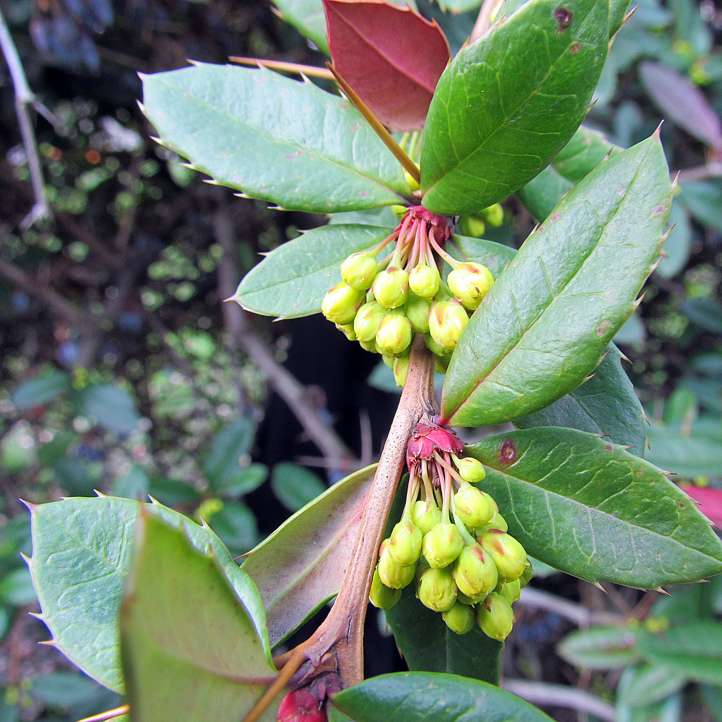 Flower buds of Berberis julianae